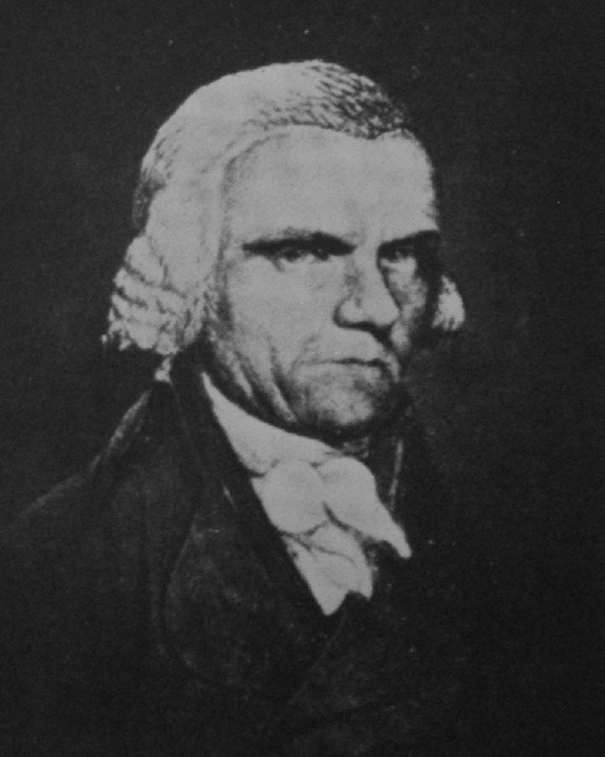 Captain Gideon Olmsted, who went to sea as a 20 year old farmboy. In 1776 the British captured him during a privateering voyage on his vessel the Seaflower, abused him as a prisoner for six months in Haiti and Jamaica, finally he contrived to ship aboard the sloop Active to return home. On her way to New York he instigated a mutiny and seized the Active--but on her way to America she was taken by a Pennsylvania privateer. Olmsted then spent the next 30 years litigating the claim for his prize. Portrait painted about 1810.